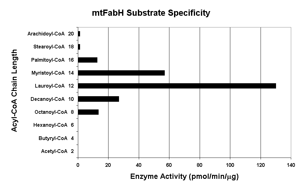 Substrate specificity of the beta-ketoacyl-(acyl-carrier-protein) synthase III of Mycobacterium tuberculosis, (mtFabH)